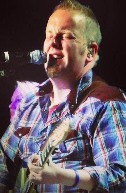 Jason Whitehorn performs to a United States audience.